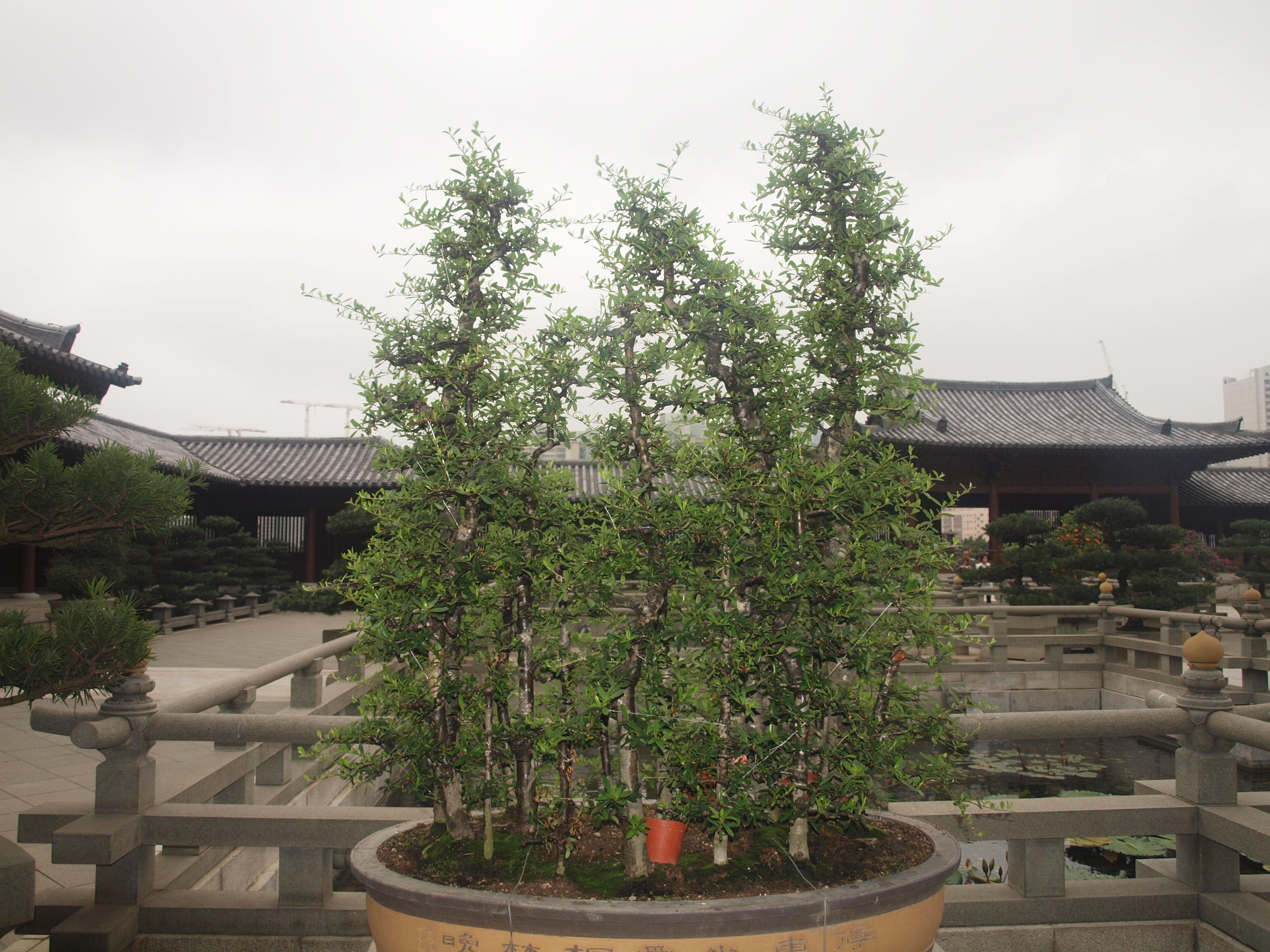 Pyracantha fortueana